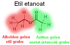 Ethyl acetate